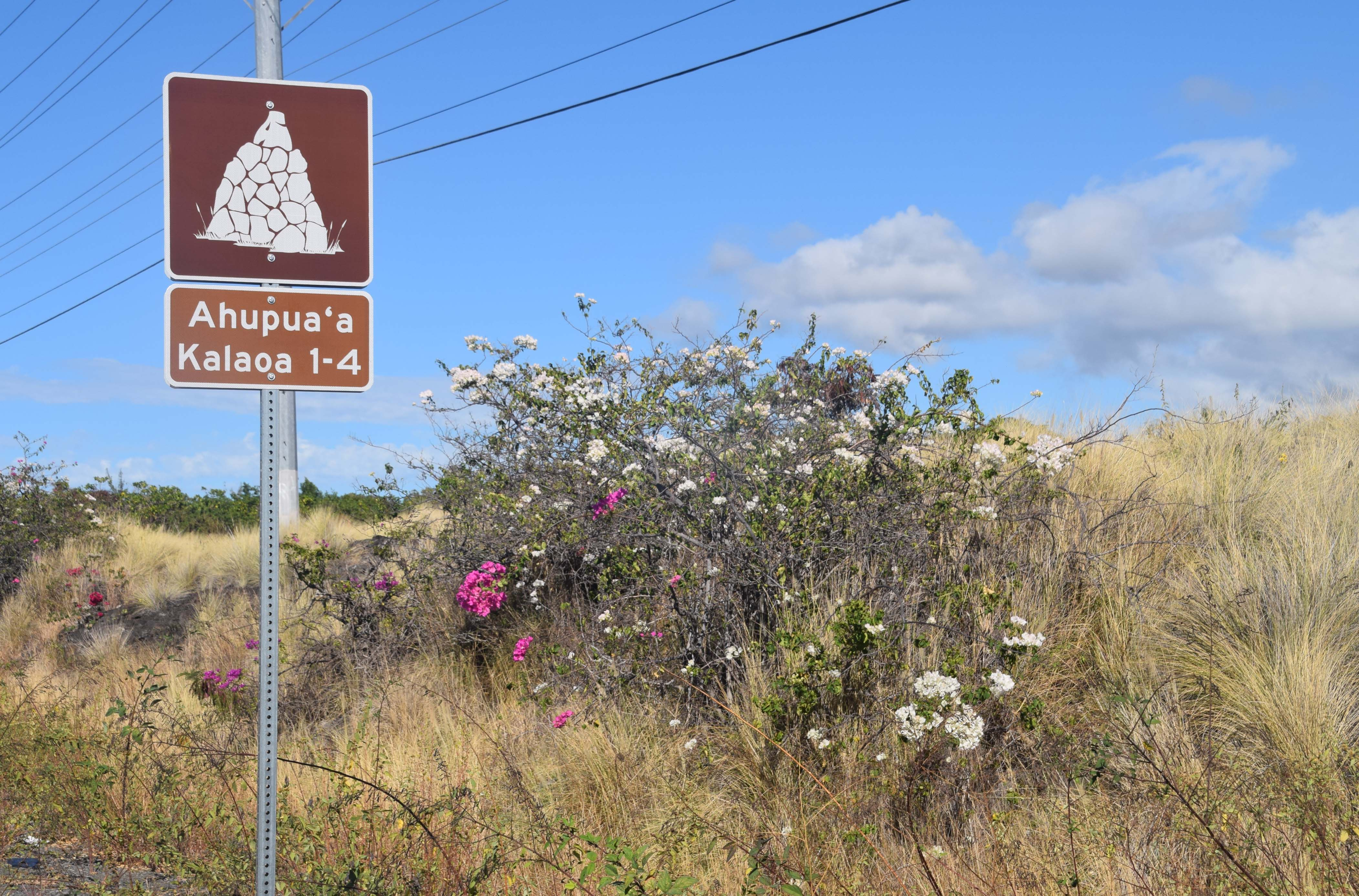 A Kalaoa road sign on Hawaii State Route 19, Kona District, Hawaii, U.S.A.